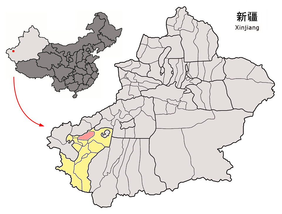 Location of Peyziwat County (pink) and Kashgar Prefecture (yellow) within Xinjiang autonomous region of China Map drawn in september 2007 using various sources, mainly : Xinjiang Uygur autonomous region administrative regions GIS data: 1:1M, County level, 1990 Xinjiang Counties map from